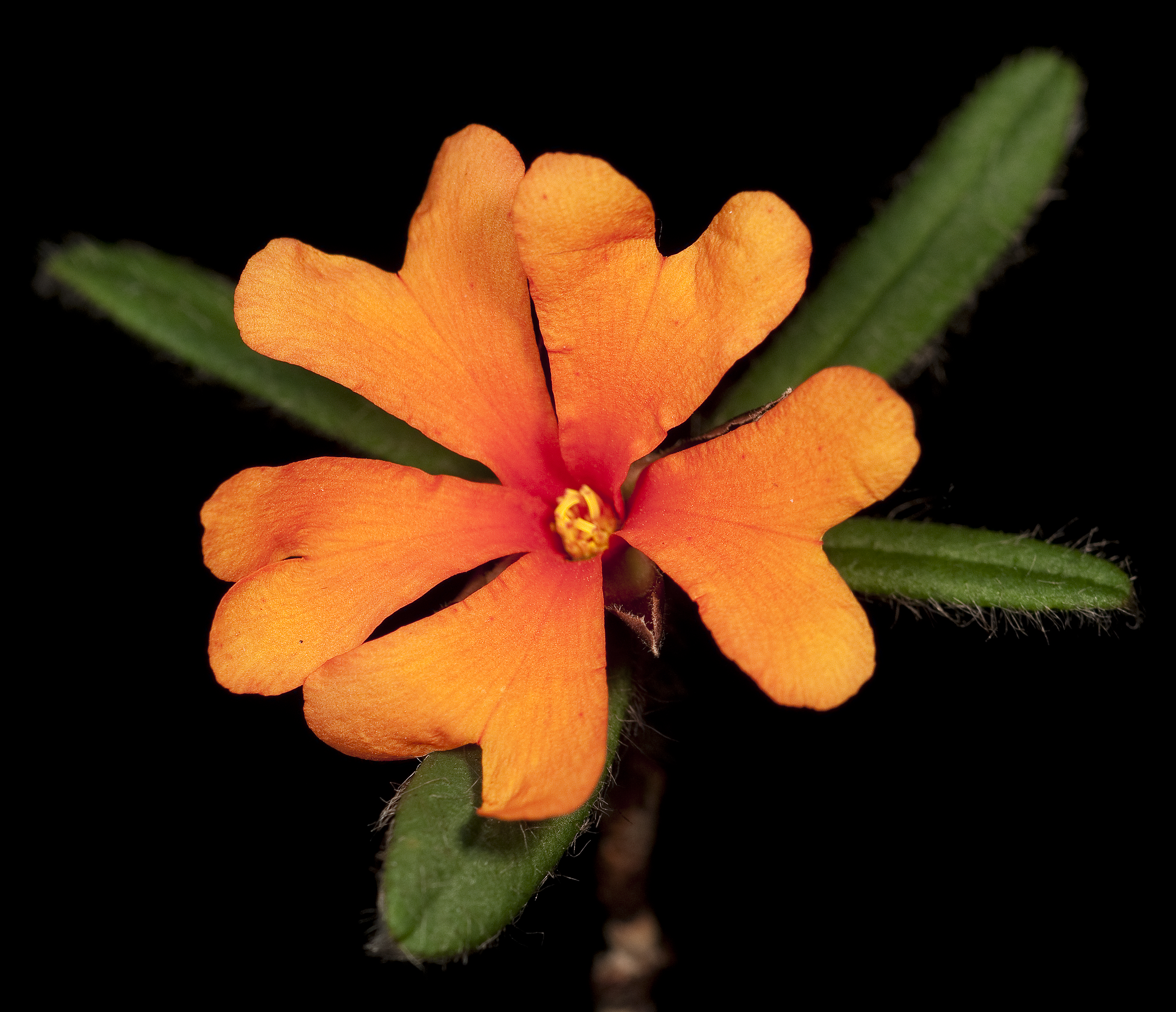 Hibbertia selkii, flower. Taken at Western Australian Herbarium.